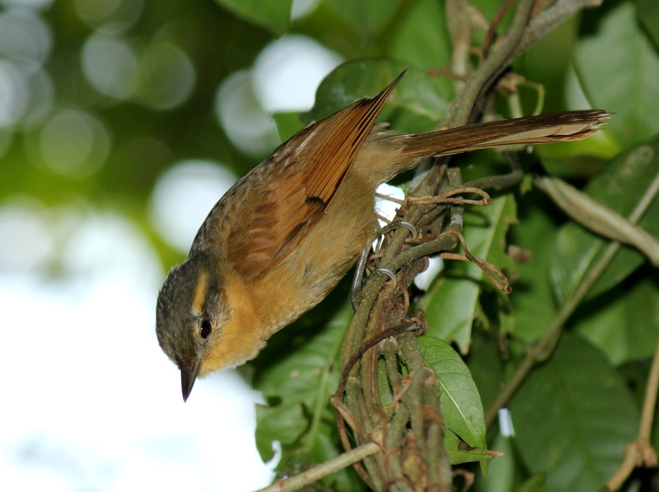 Ochre-breasted foliage-gleaner; São Sebastião, São Paulo, Brazil